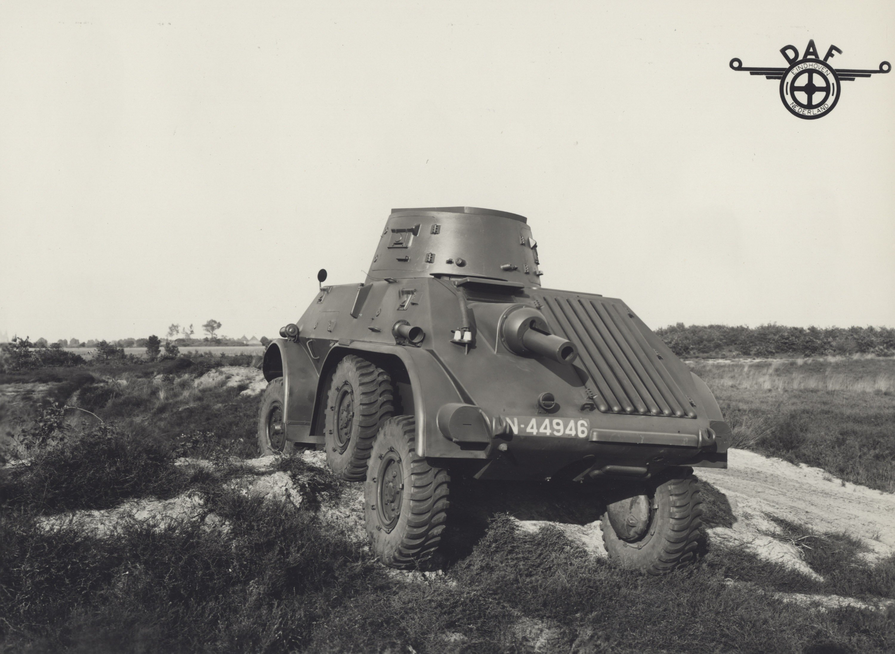 DAF M39 armoured vehicle, Collection Wim den Dunnen